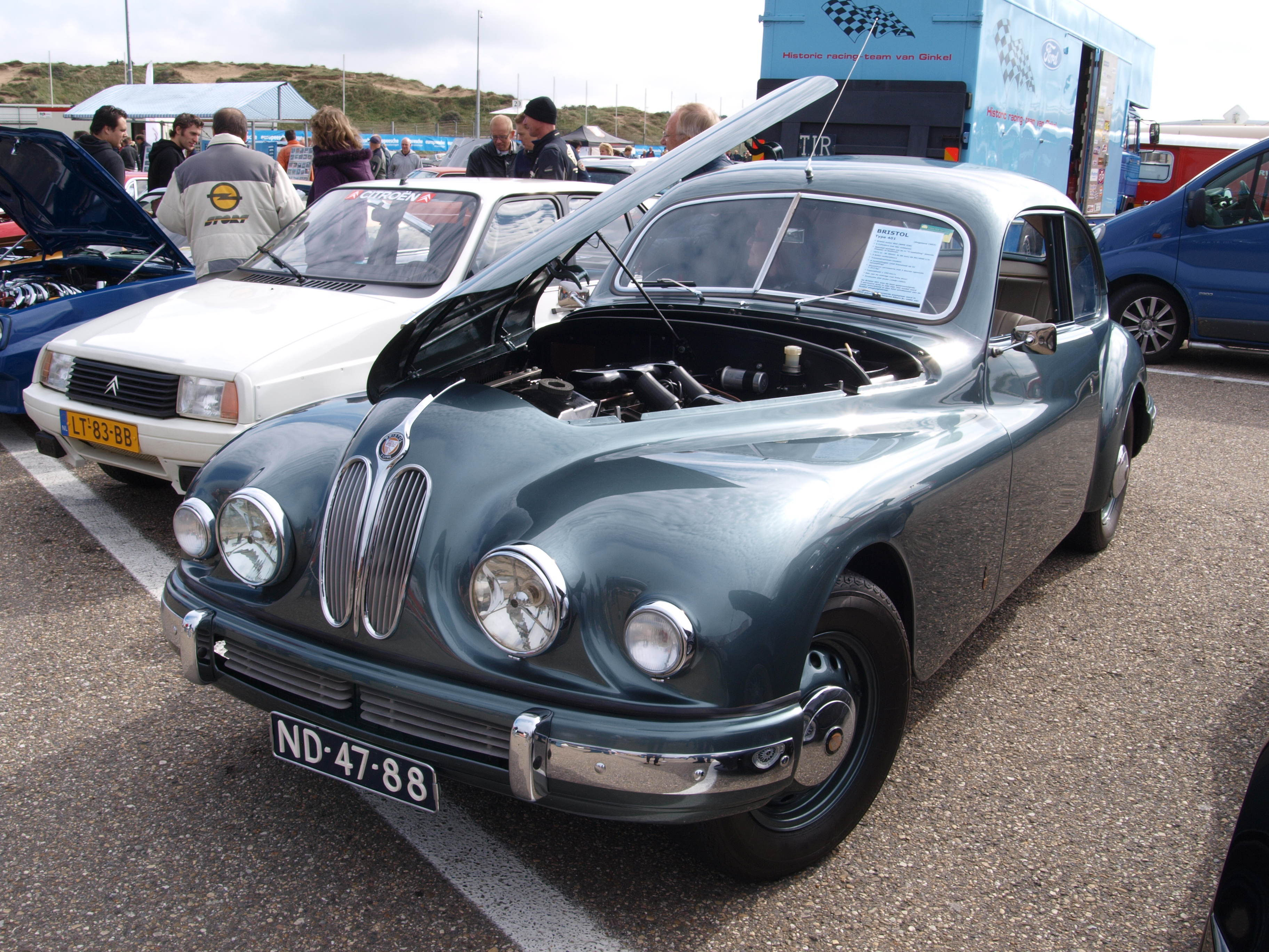 Photographed at the Nationaal Oldtimer Festival Zandvoort 2010, The Netherlands.